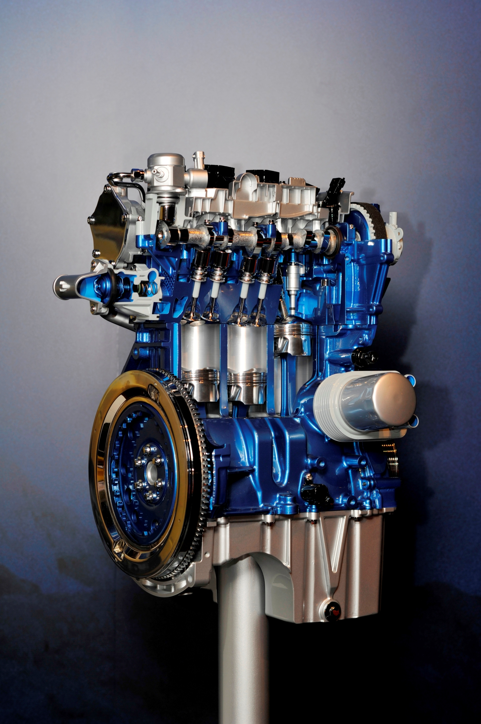 The inline 3-cylinder Ford EcoBoost 1.0 litre Fox engine.